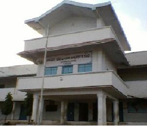 Banjara bijapur